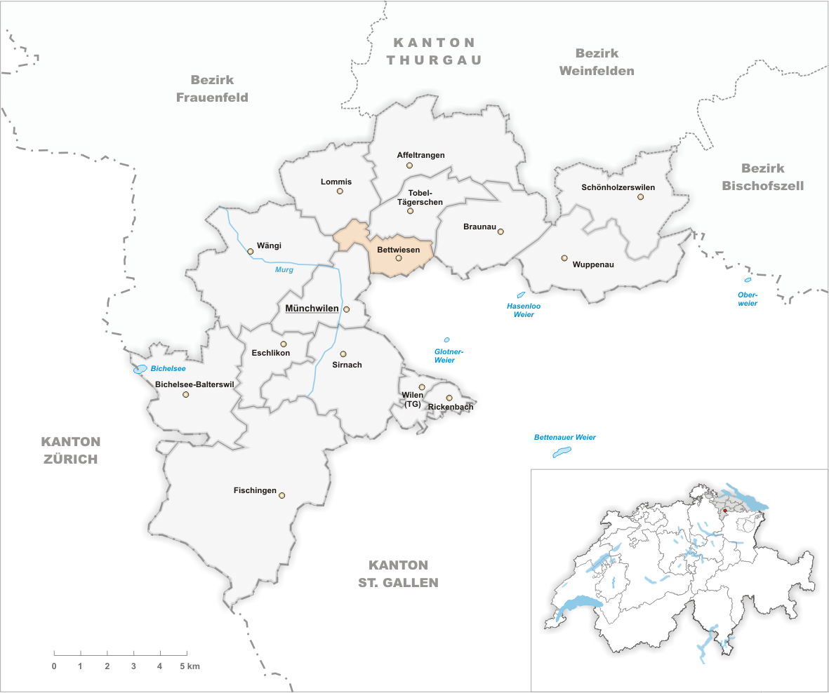 Municipality Bettwiesen